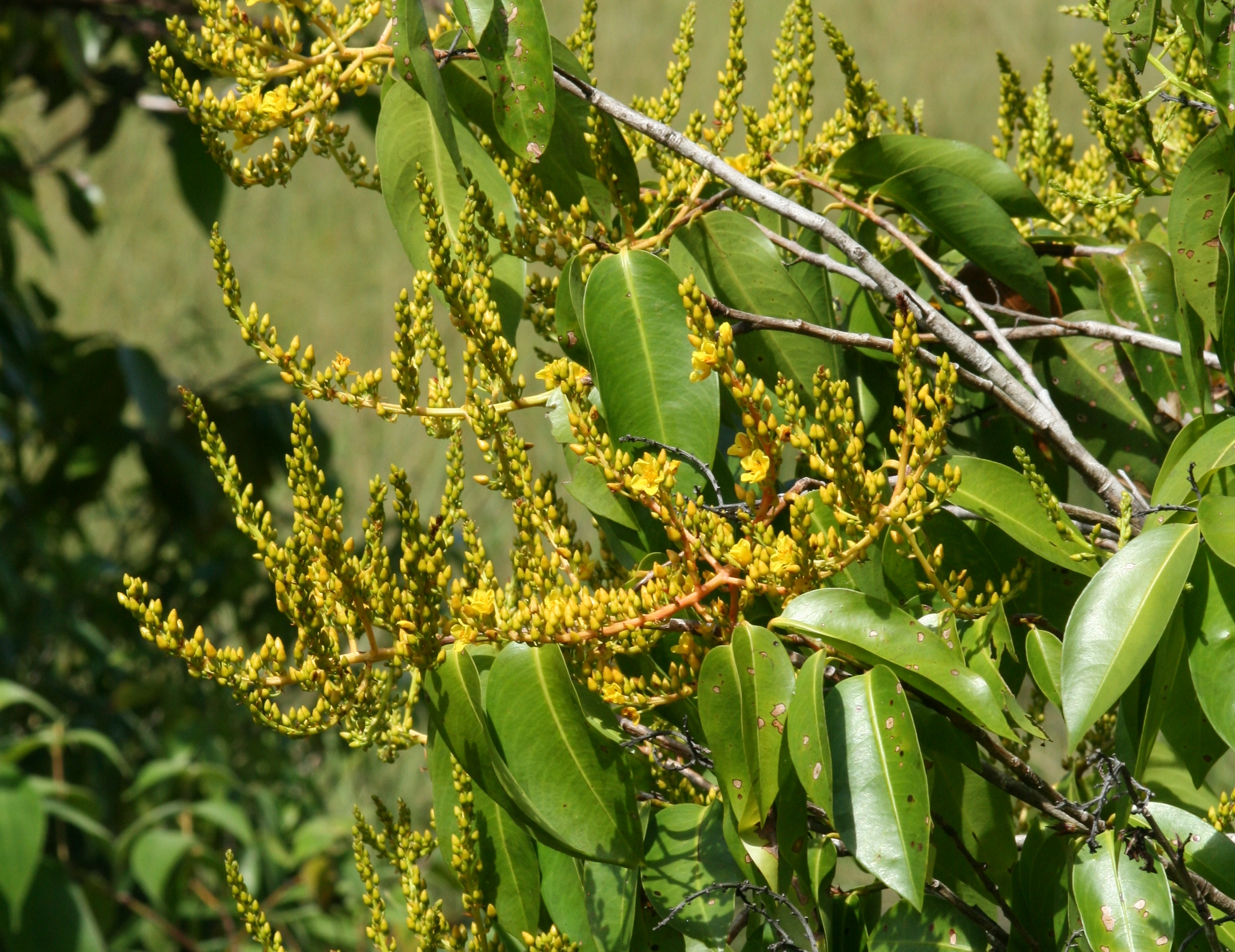 Flowering branches of Ouratea brevicalyx, Rio Ventuari near Cacuri, Venezuela